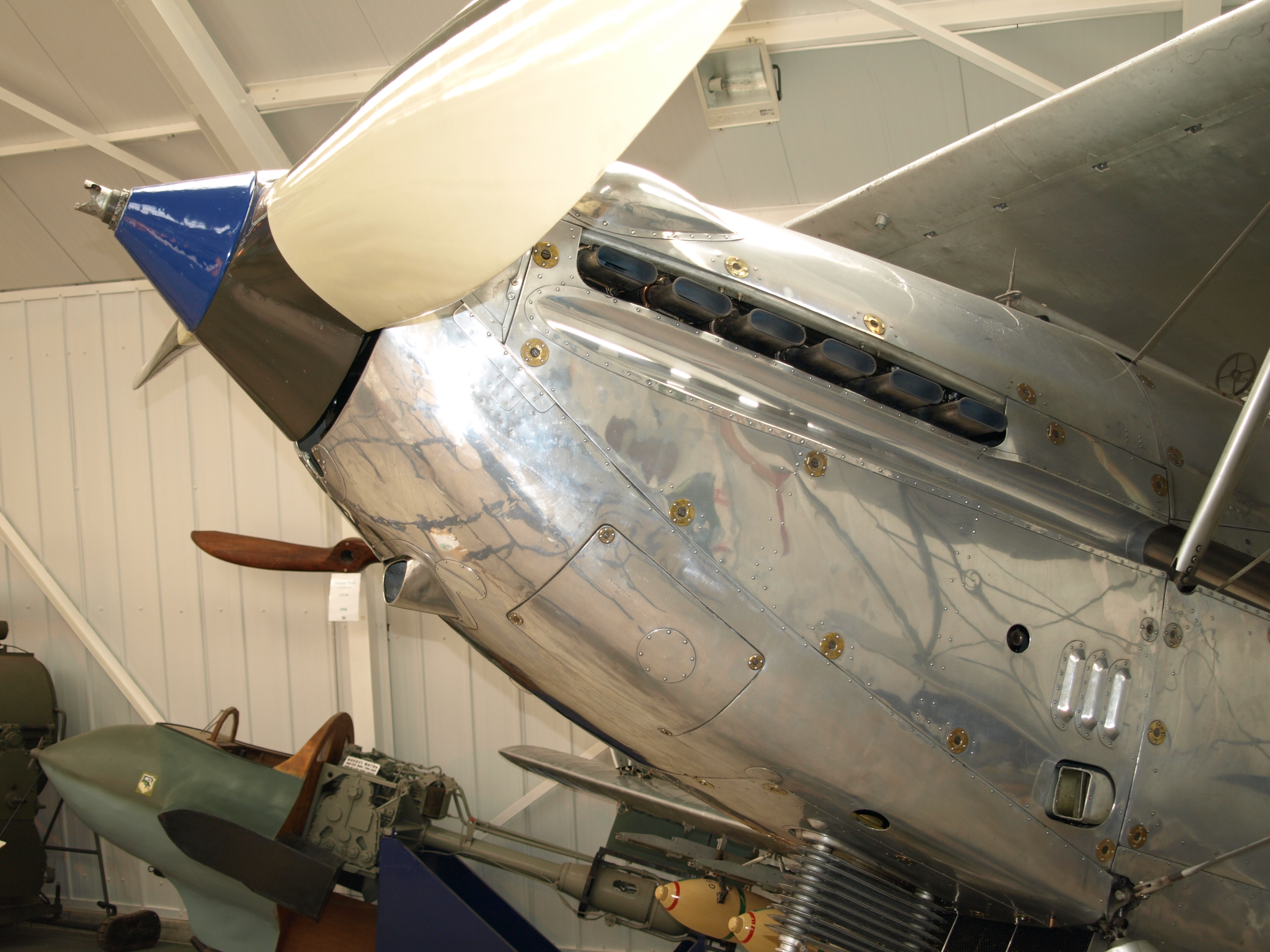 Rolls-Royce Kestrel engine installed in a Hawker Hind biplane at the Shuttleworth Collection